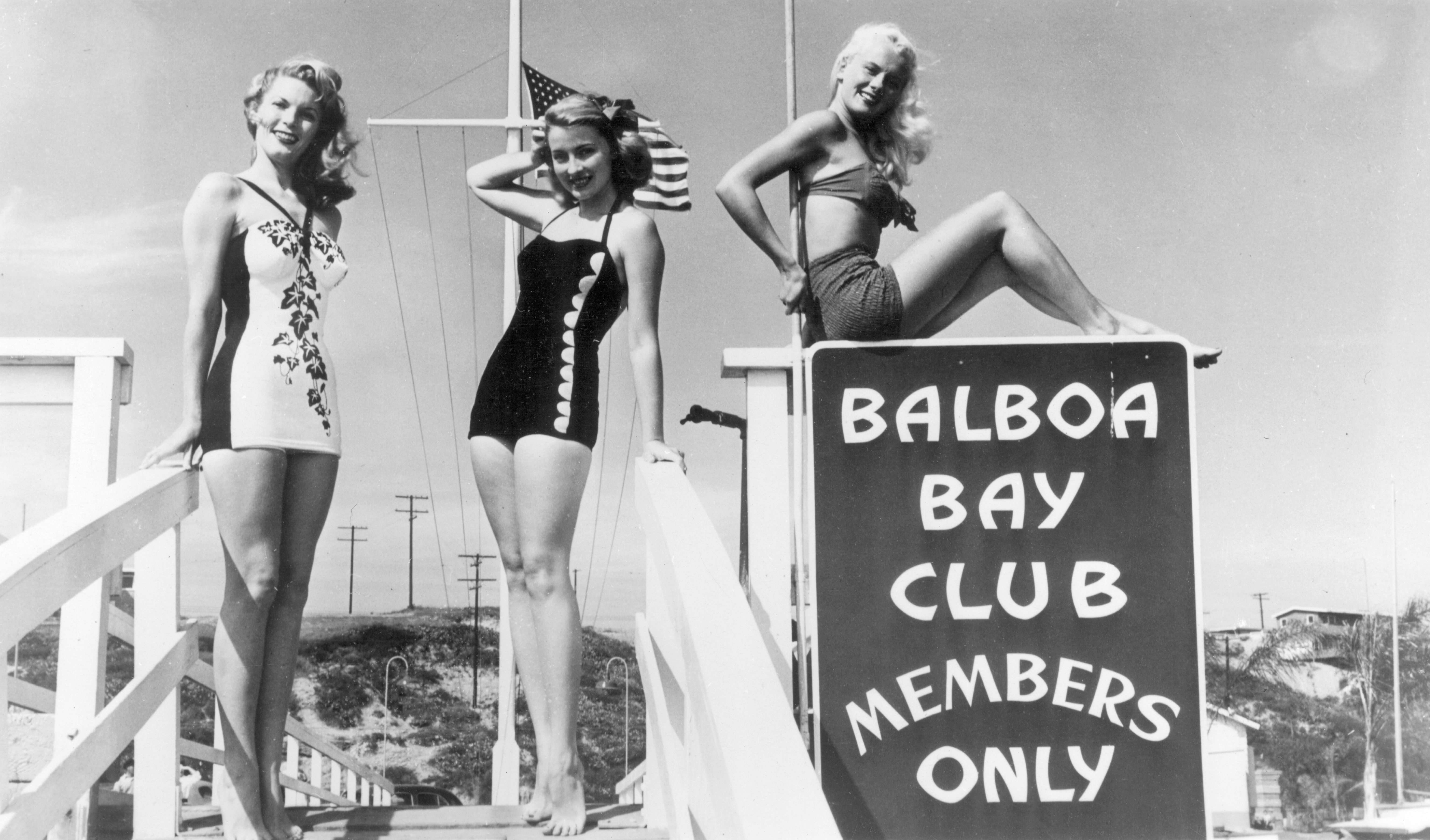 Classic Balboa Bay Club, Newport Beach